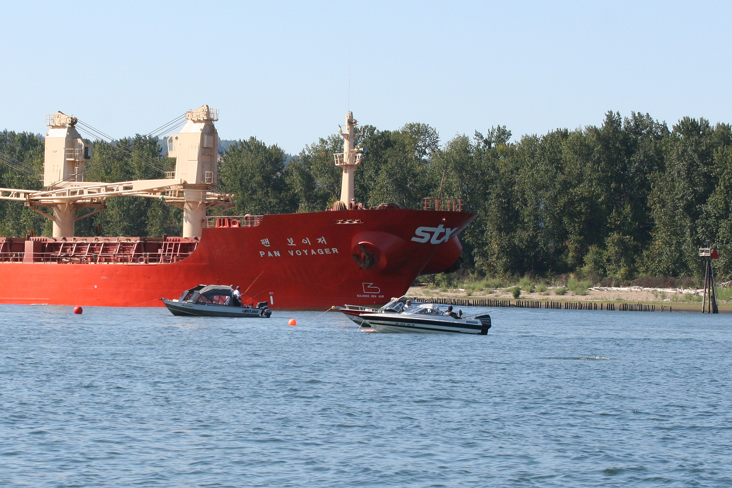 Pan Voyager Original caption: Recreational vessels anchored at the mouth of the Willamette River, if this ship was upbound on Columbia these skippers would need to move.